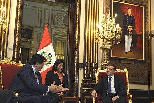 LIMA, PERU. With President of Peru Alan García Pérez